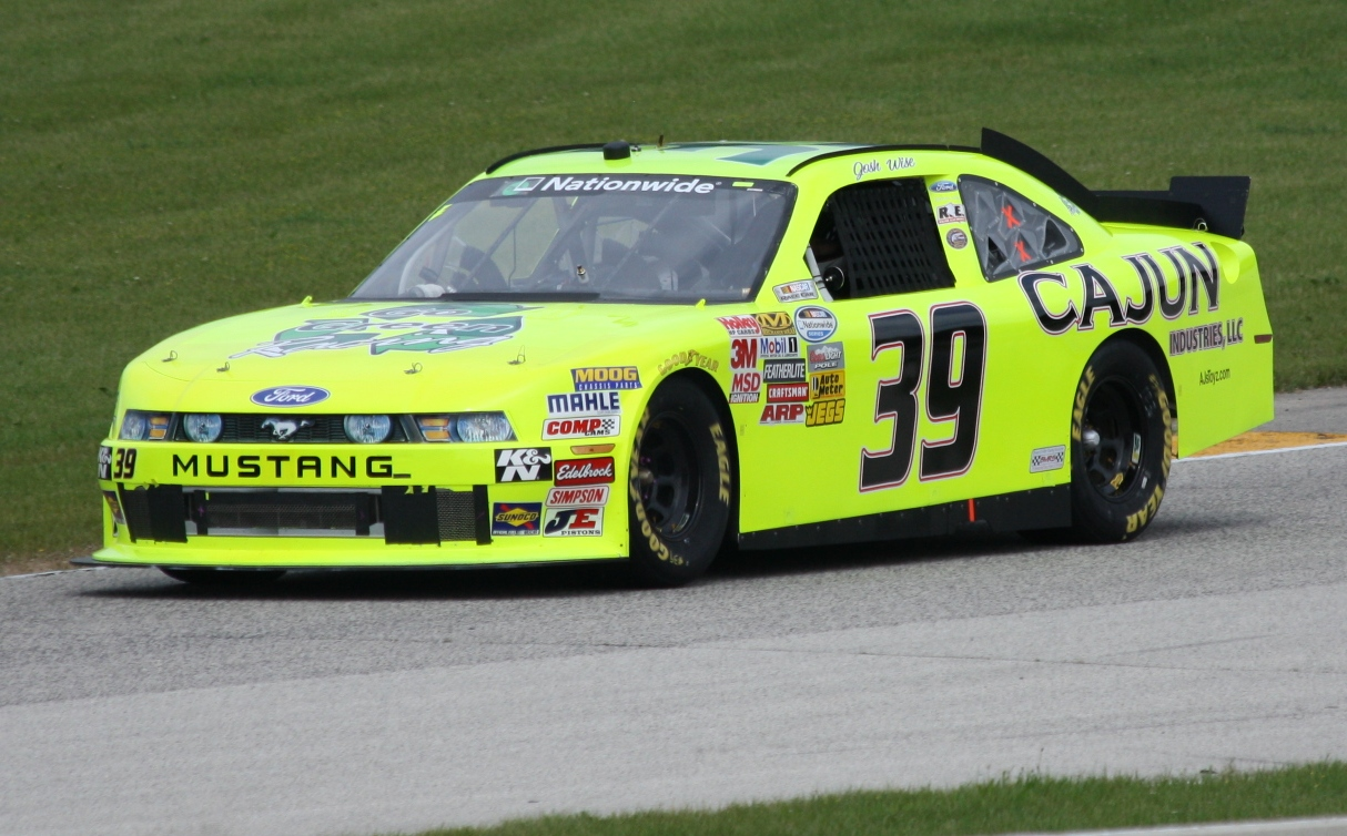 NASCAR driver Josh Wise racing his stock car at Road America at the 2011 Bucyros 200 Nationwide Series race.